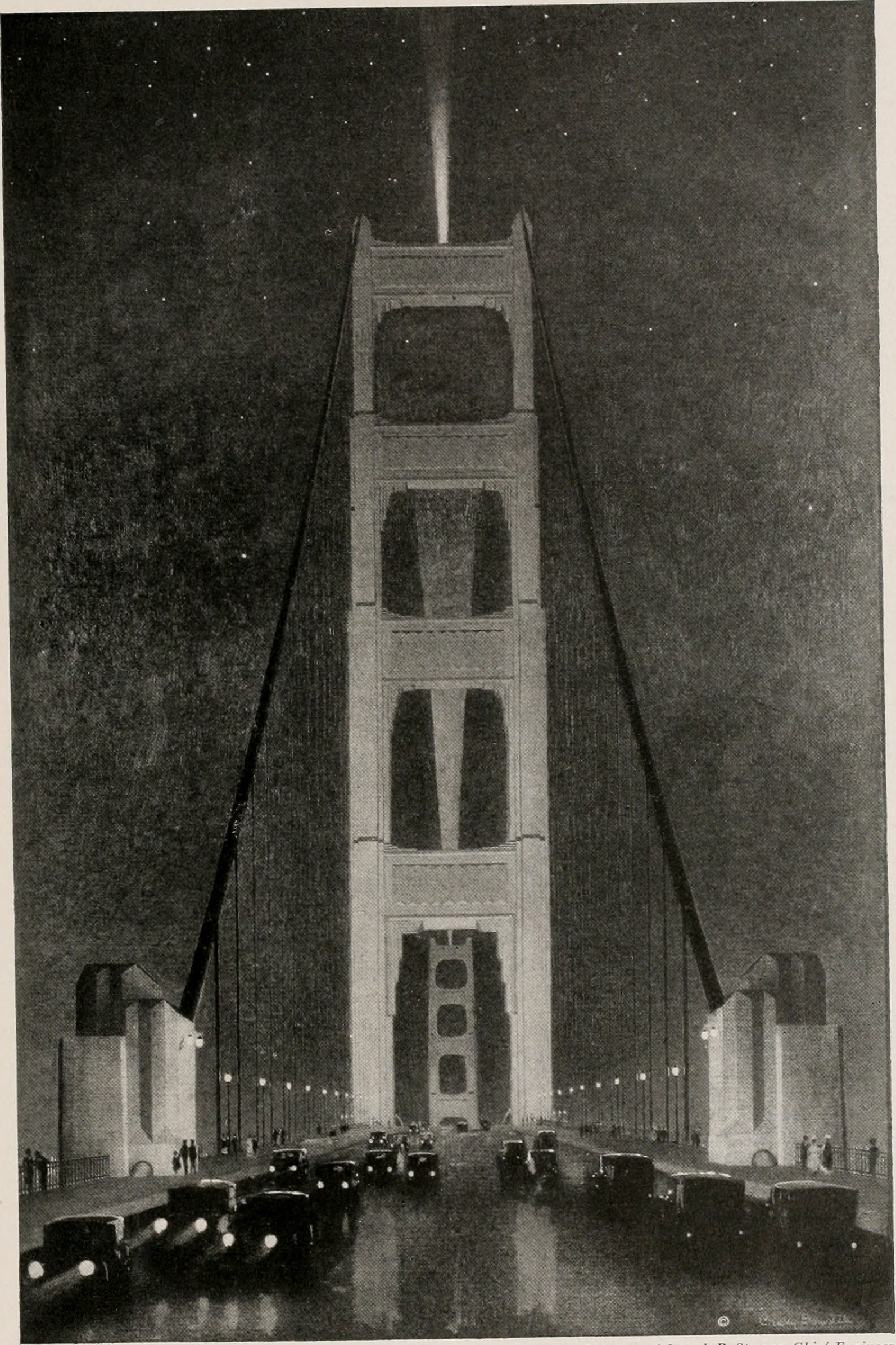 Moonlight view of south tower, Golden Gate Bridge, Rendering by Chesley Bonestell, 1933 Title: Architect and engineer Year: 1905 (1900s) Authors: Subjects: Architecture Architecture Architecture Building Publisher: San Francisco : Architect and Engineer, Inc Text Appearing Before Image: TRIAL ERECTION, BOTTOM l^ORTION OFEAST LEG OF MARIN TOWERHciyht fifty feet, weight 750 tons FEATURING PROGRESS WORK ON THEGOLDEN GATE BRIDGE San Francisco to Marin County. California ^ 44 ► Text Appearing After Image: Courtesy oj lostph B. Strauss. Chief Engineer MOONLIGHT VIEW OF SOUTH TOWER, GOLDEN GATE BRIDGERENDERING BY CHESLEY BONESTELL THE ARCHITECT AND ENGINEER -^ 43 ^ OCTOBER, NINETEEN THIRTY-THREE -■^m